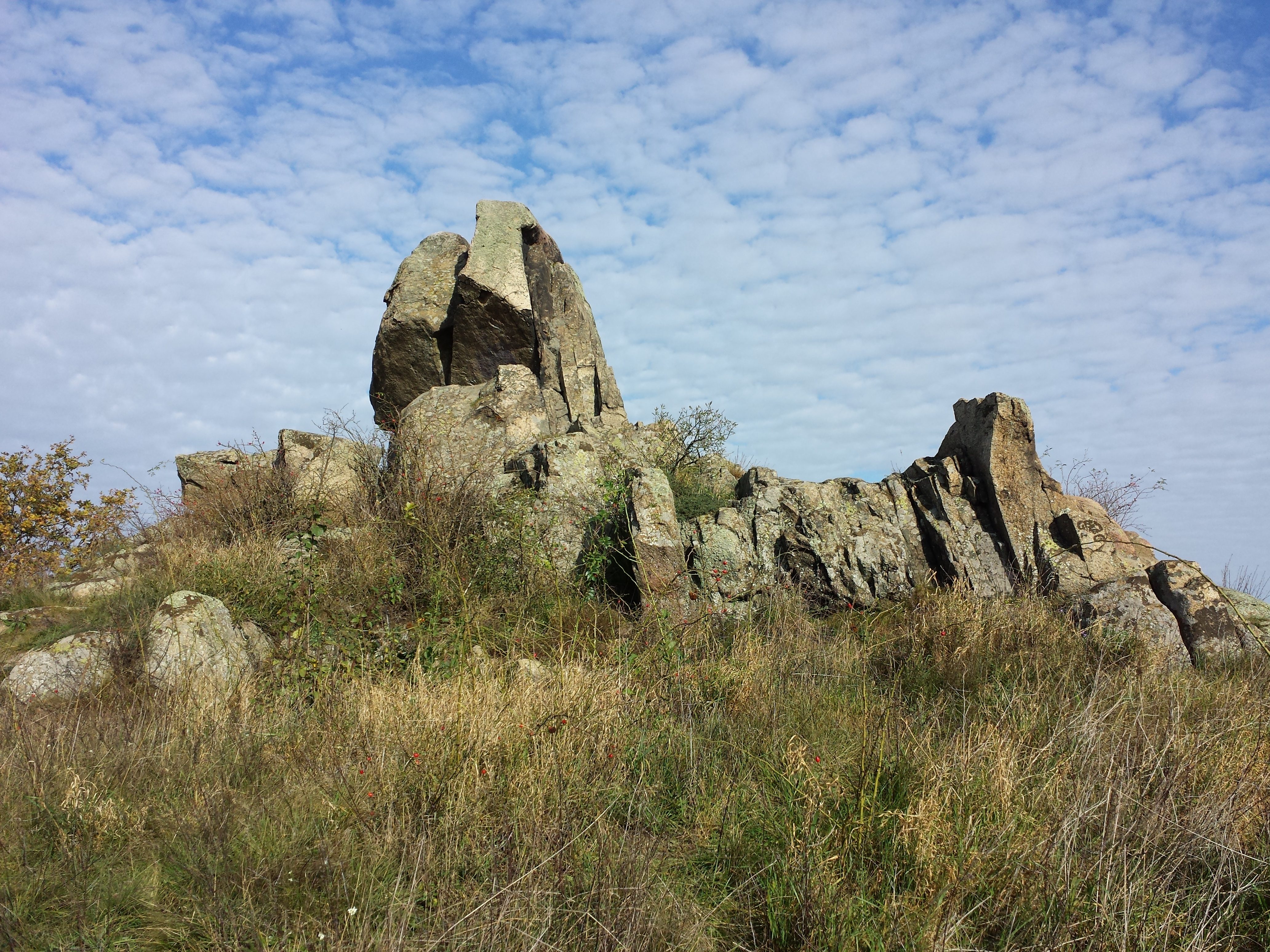 Nature reserve Kogelsteine-Fehhaube, district Horn, Lower Austria - ca. 330 m a.s.l. Natural monument HO-049 This media shows the nature reserve in Lower Austria with the ID 68. This media shows the natural monument in Lower Austria with the ID HO-049.